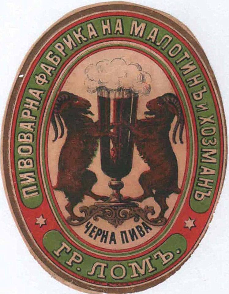 Lomsko dark beer